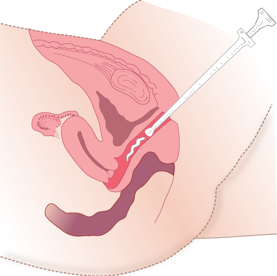 Administering medication vaginally using an applicator / intravaginal administration